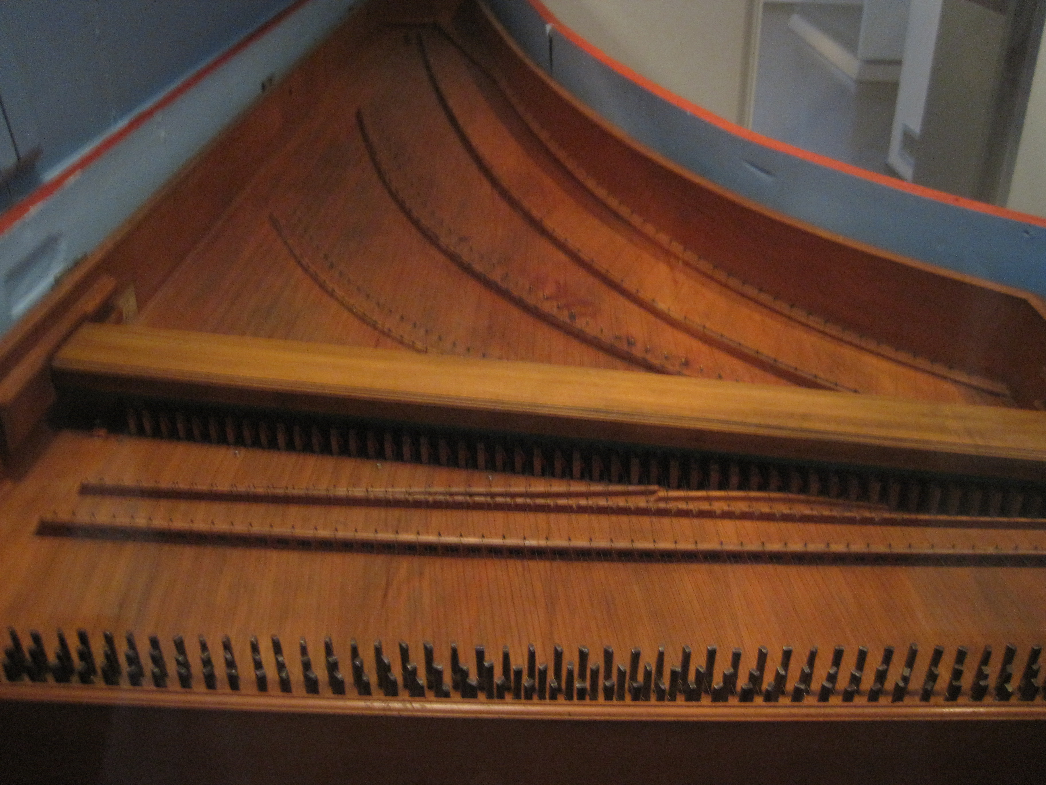 A harpsichord made by Bartolomeo Cristofori, the inventor of the piano. It includes, unusually, a two-foot choir of strings as well as the more standard eight-foot and four-foot. On the surface of the instrument, from top to bottom: eight-foot hitchpin rail, eight-foot bridge, four-foot bridge, two-foot bridge, jack rail covering the jacks, two-foot nut (curved), four-foot nut, eight-foot nut, tuning pins. The instrument is in the collection of the Musical Instrument Museum in Leipzig, Germany.